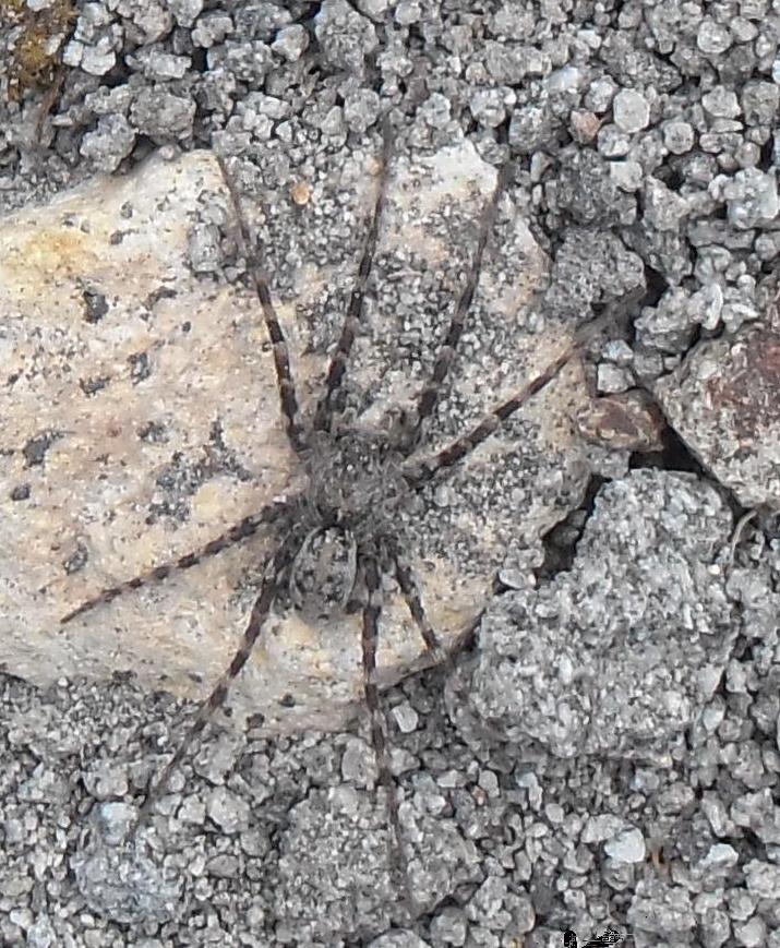 This wolf spider was found just below the snow line at about 1600 meters on Mt Taranaki, North Island, New Zealand. It was about 30 mm across. Was identified by Te Papa Museum expert staff member (from photo) as very likely to be Anoteropsis aerescens (no common name). Definitely a type of wolf spider.